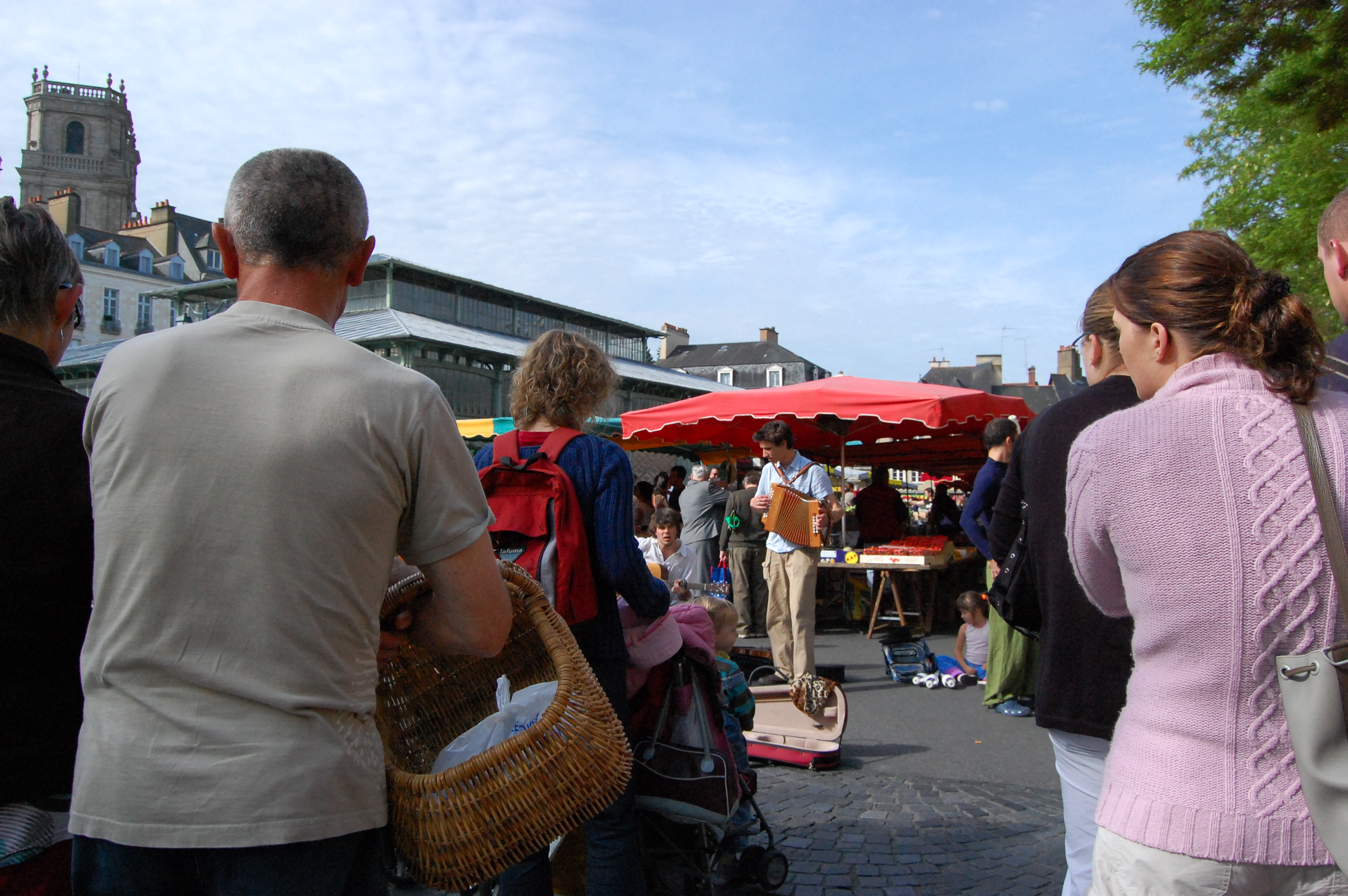 Musicians in the Marché des Lices